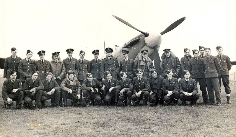 No 485 Squadron Members in 1942